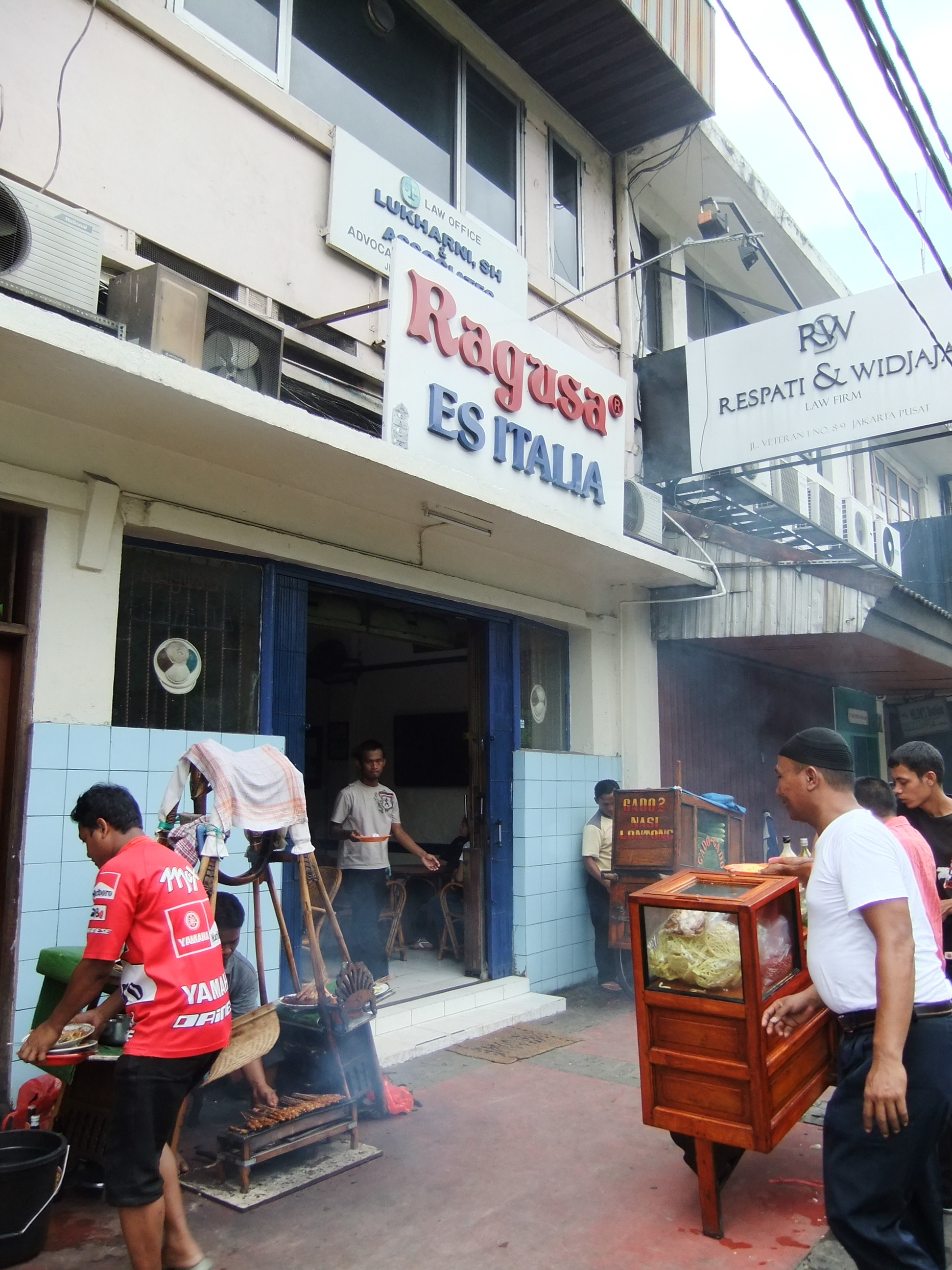 Ragusa Es Italia Jalan Veteran, Jakarta